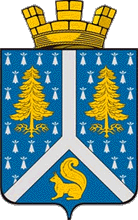 Coat of Arms of Tarko-Sale (Yamalo-Nenetsky AO)